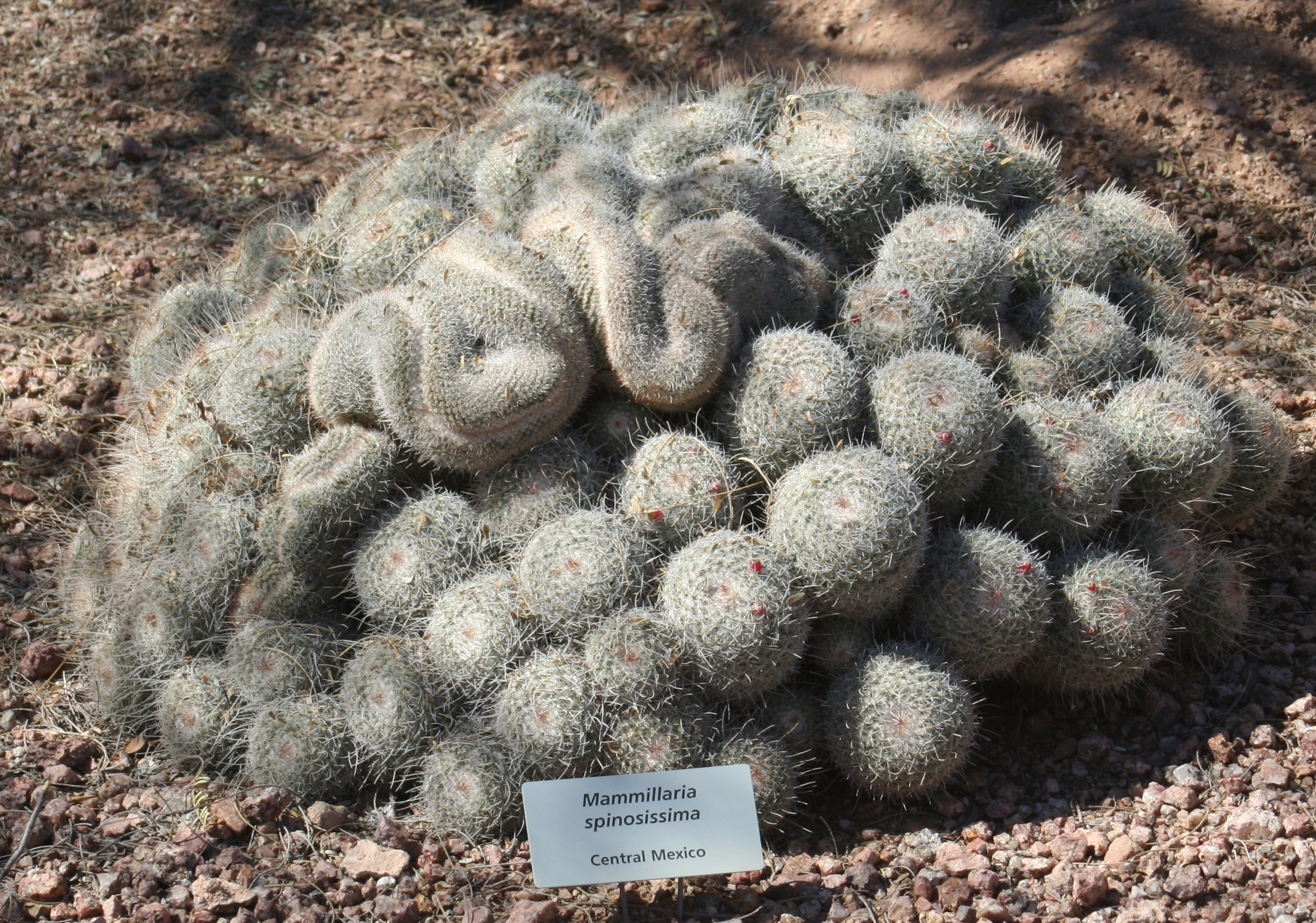 Mammillaria spinosissima; native to Central Mexico. Photographed at the Desert Botanical Garden, Phoenix, AZ.